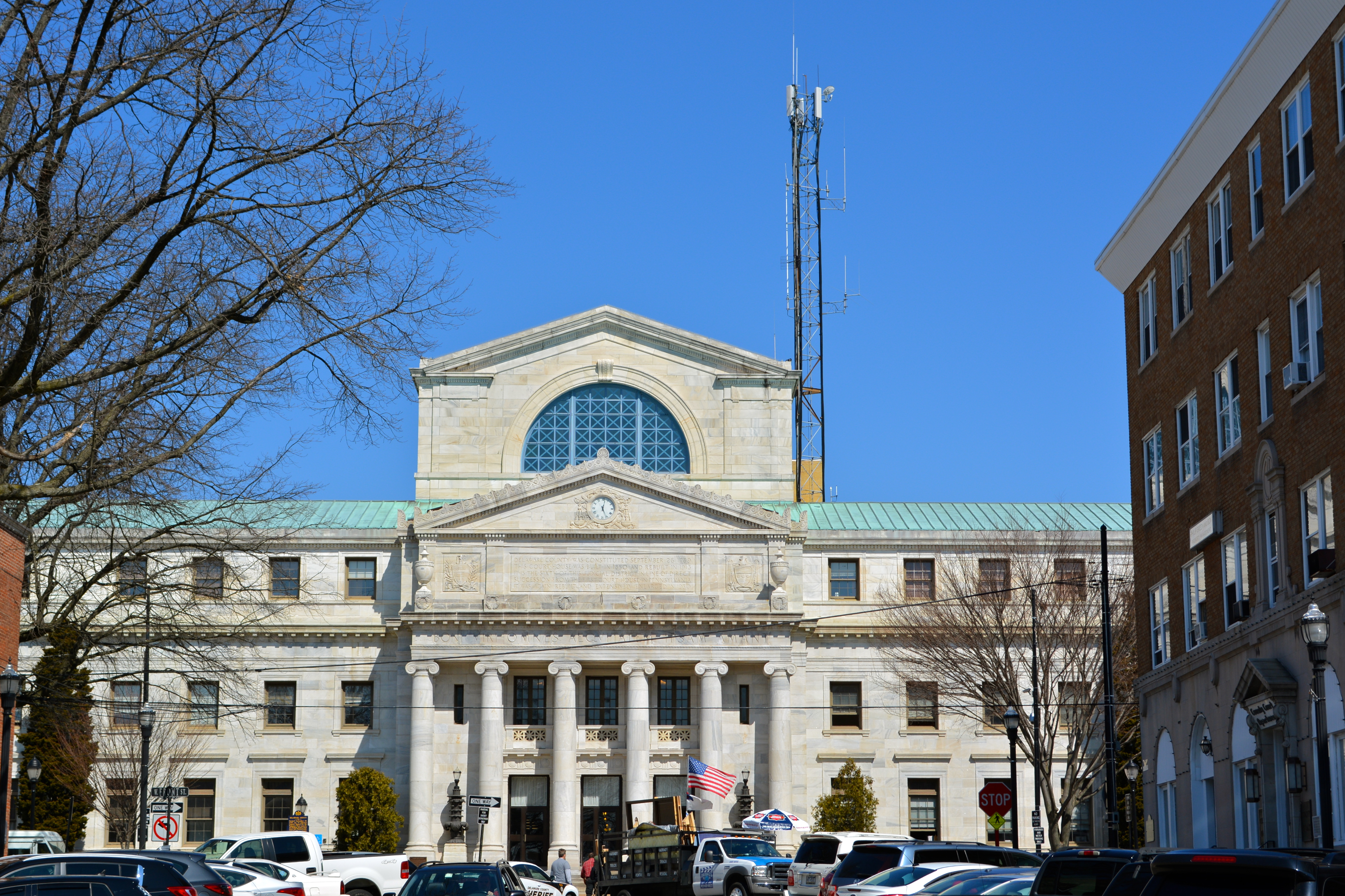 Delaware County (Pennsylvania) Courthouse, looking north from Veteran's Square, in Media, Pennsylvania.